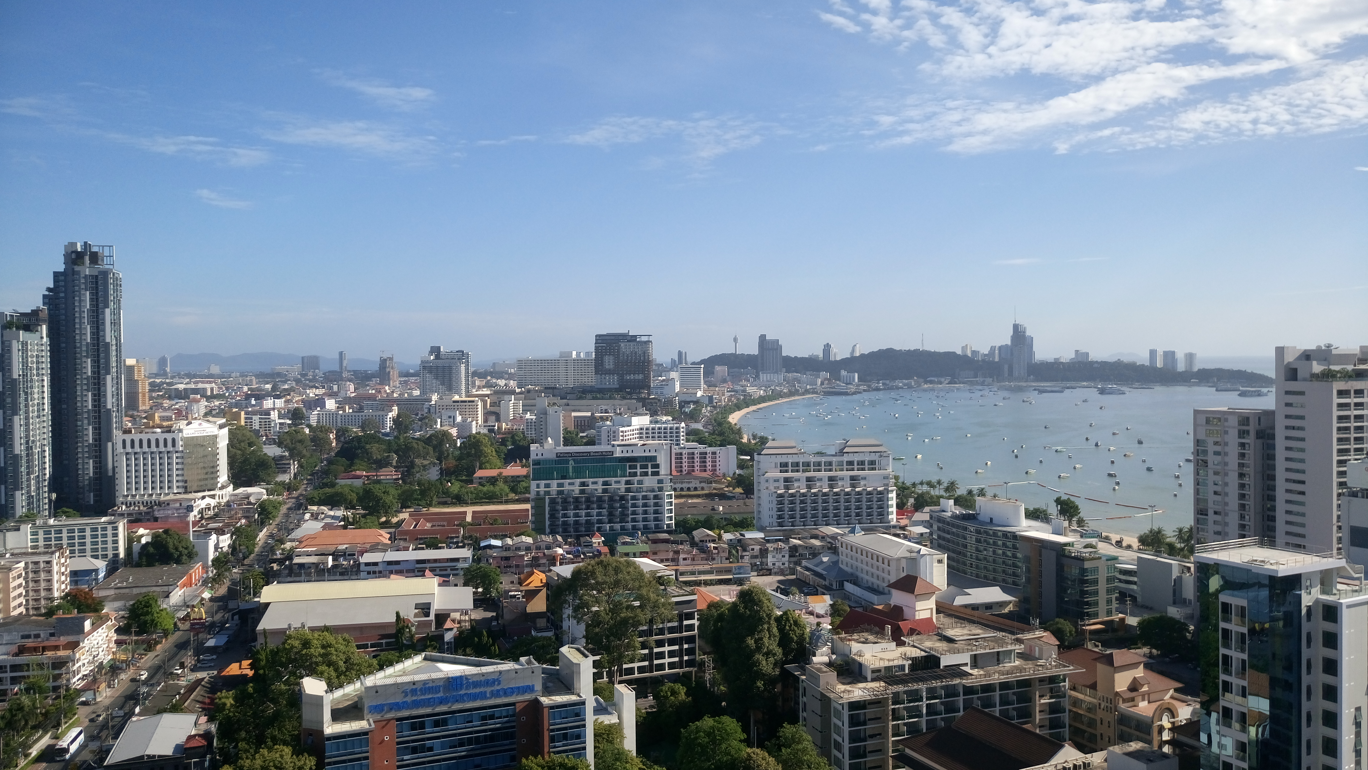 Central Pattaya in daytime June 2017